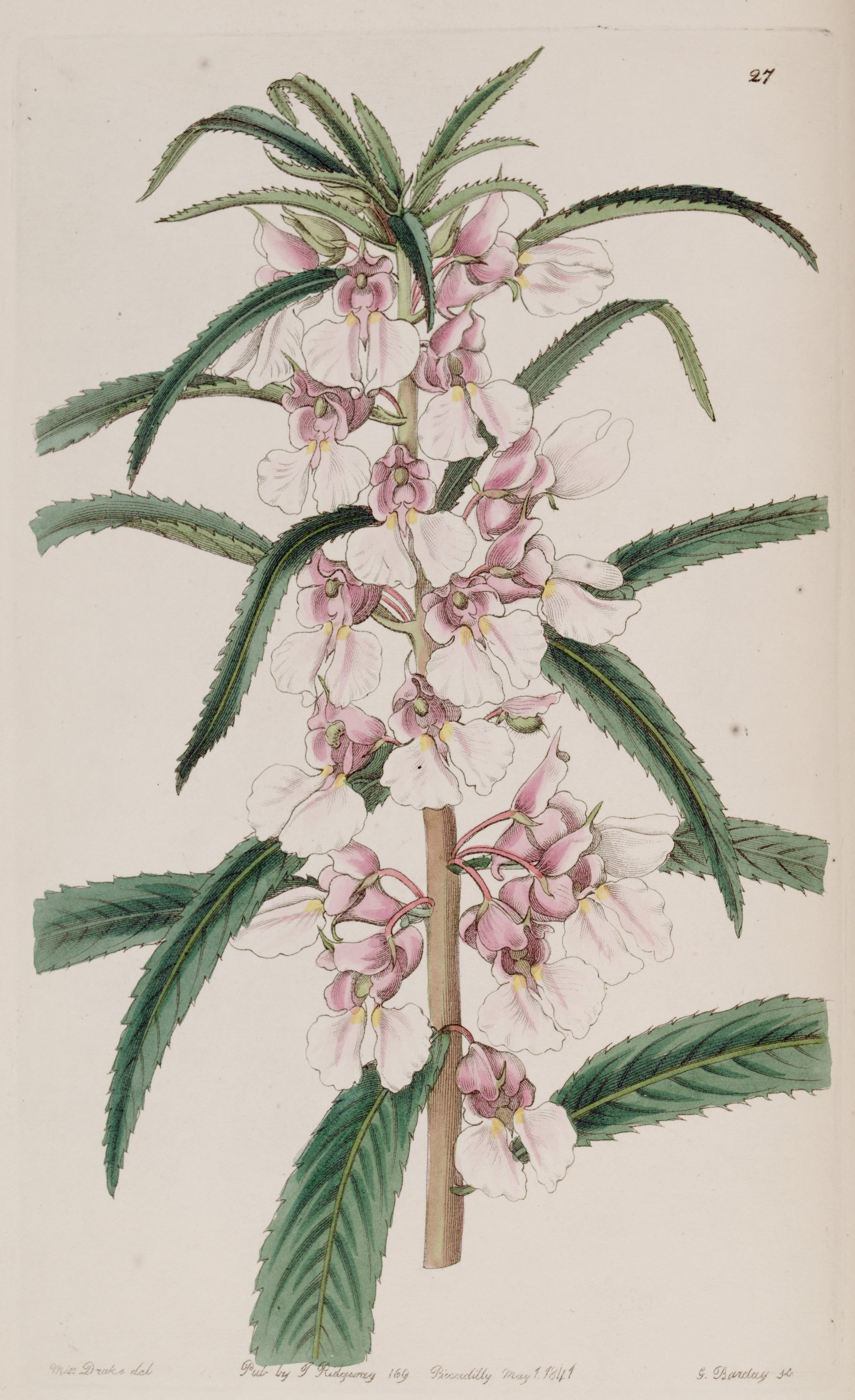 Impatiens rosea